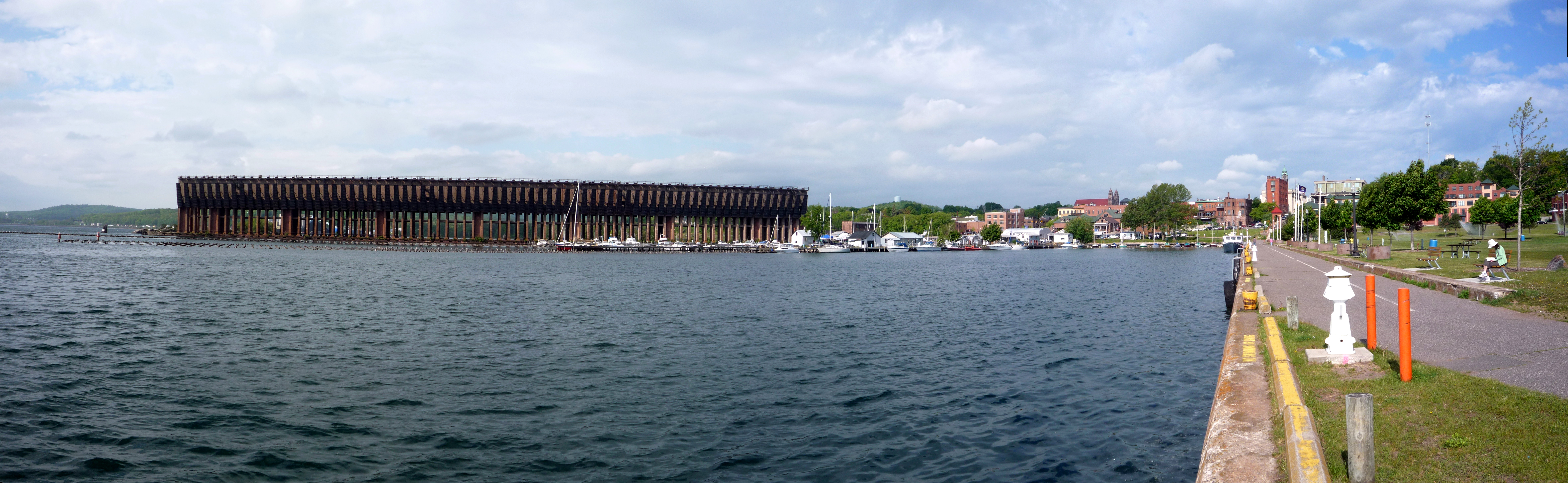 Lower Harbor, Marquette, Michigan, USA.